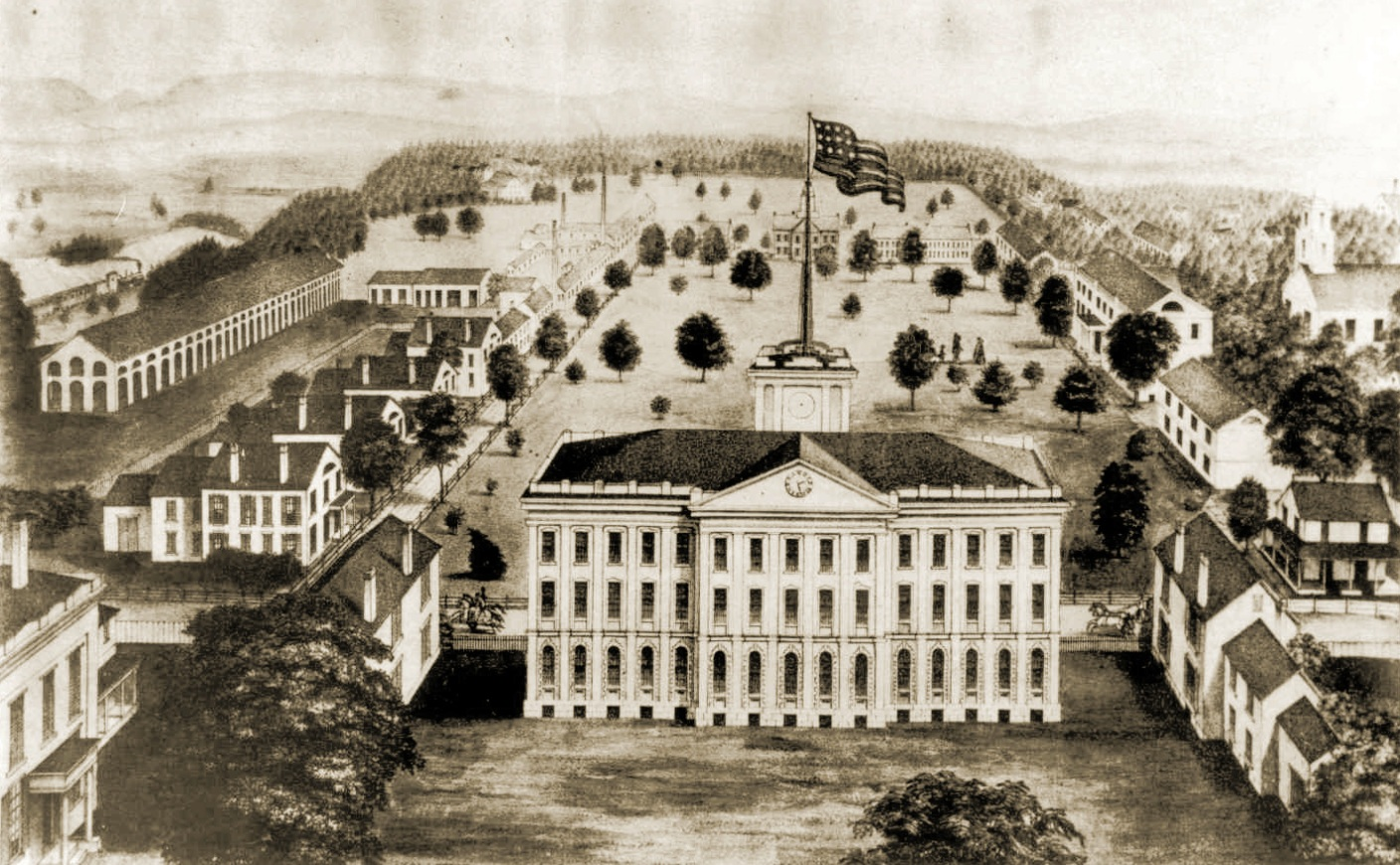 This illustration from 1850 shows the growth of Springfield Armory since its inception in 1794. The building in the foreground is the Main Arsenal building that acts as the Springfield Armory National Historic Site visitor center today.